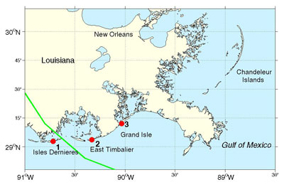 Map showing the track of Hurricane Gustav across the Mississippi delta. Original caption: “ Green line represents storm track. ”